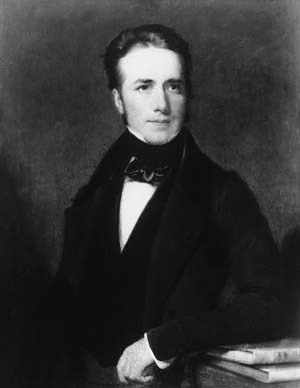 Thomas Drummond by Henry William Pickersgill. The original picture is in the National gallery of Ireland